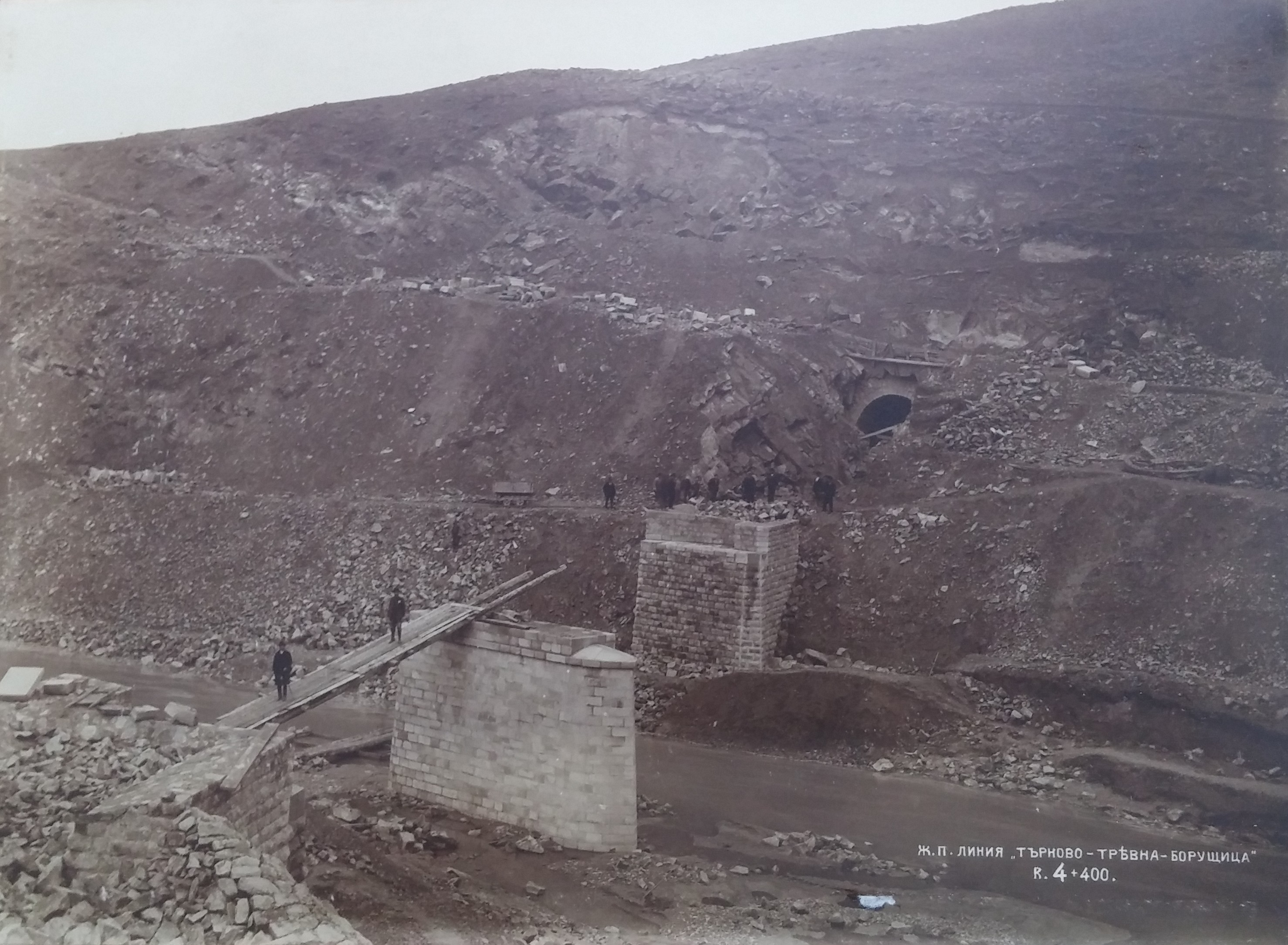 Construction of the railway line Veliko Tarnovo - Tryavna - Borushtitsa.